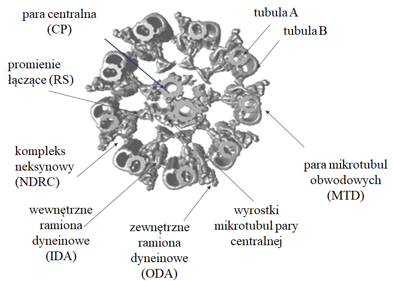 Schemat budowy rzęski. Przekrój poprzeczny przez rzęskę ruchomą obrazujący organizację szkieletu mikrotubularnego i kompleksów rzęskowych.